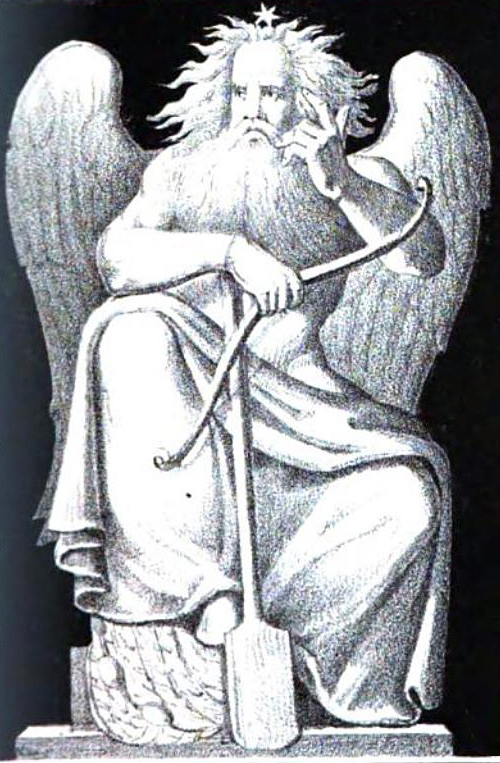 The caption for this illustration reads "Njörðr". The artist is uncredited. Please replace with a higher quality version if possible. This version was taken from a low quality scan found in a PDF version of the source.